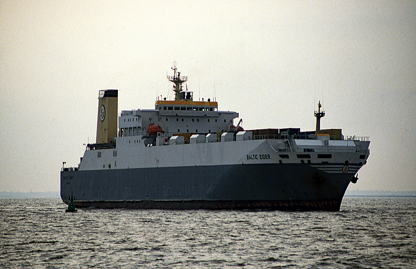 United Baltic Corporation ro-ro container ship Baltic Eider approaching Felixstowe. Other names: MN Eider, Eider, Super Shuttle Ro-Ro 10 Information about the vessel may be found at IMO 8801917.A ship can change name and flag state through time, but the IMO number remains the same through the hull's entire lifetime. As a result, it can be useful to identify a ship by using the IMO number. Scanned from a Fujichrome 35mm slide